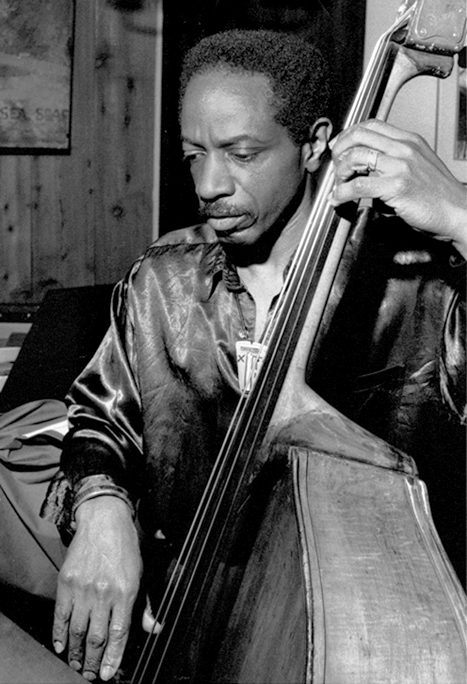 Reggie Workman at Bach Dancing & Dynamite Society, Half Moon Bay CA 4/2/89. Photo by Brian McMillen /